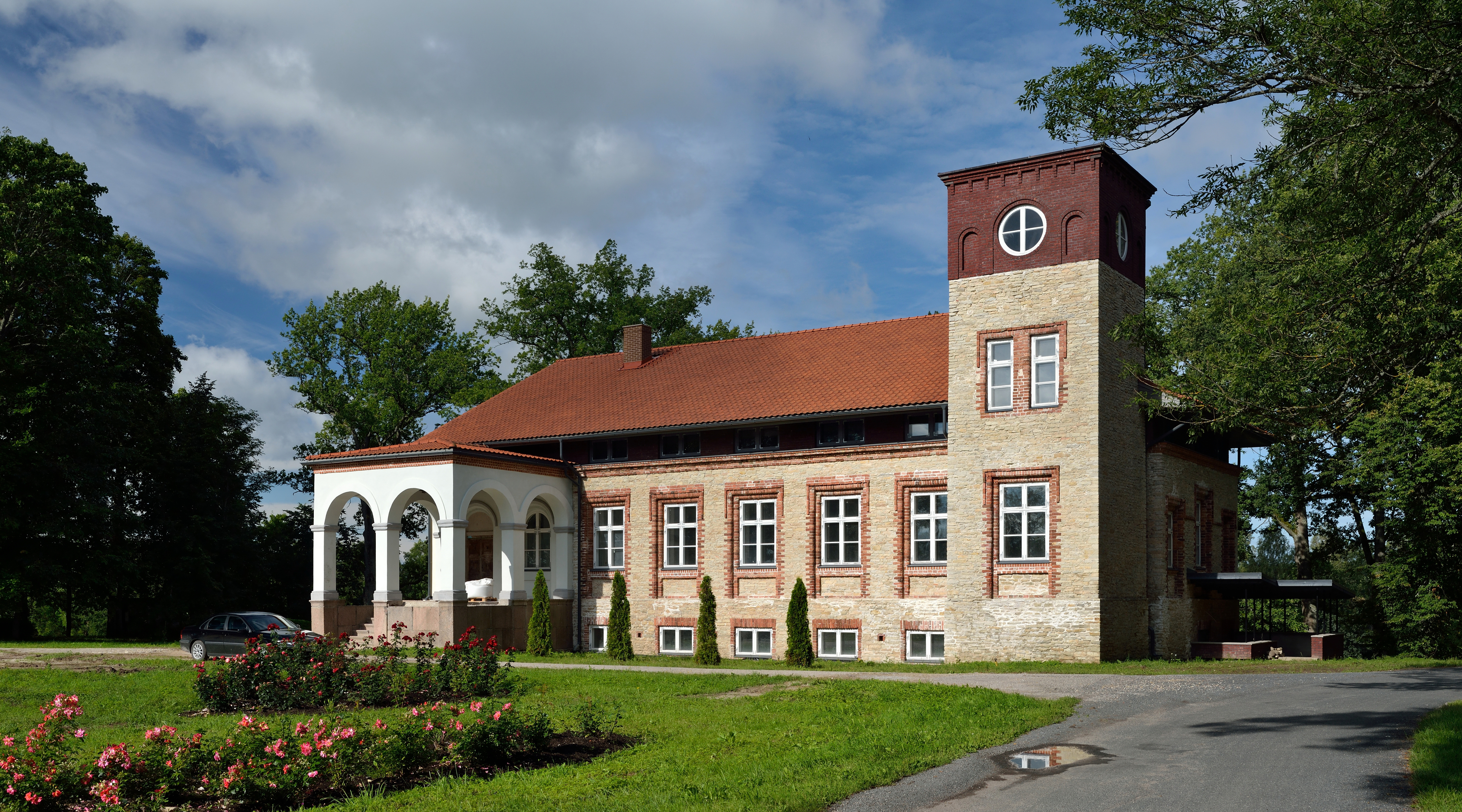 Taali manor main building, built 1851–1852.